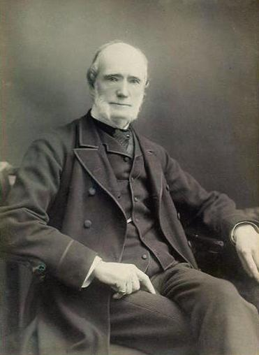 Photograph of Sir Edward Augustus Bond